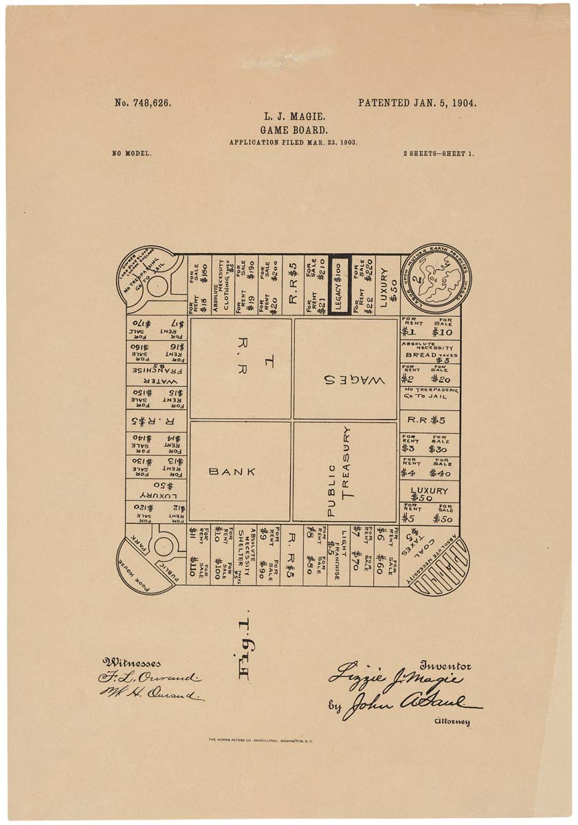 Drawing for a Game Board, 01/05/1904. This is the printed patent drawing for a game board invented by Lizzie J. Magie. From the U.S. National Archives. Item from Record Group 241: Records of the Patent and Trademark Office, 1836 - 1973. Location: Civilian Records LICON, Textual Archives Services Division (NWCTC), National Archives at College Park, 8601 Adelphi Road, College Park, MD 20740-6001 PHONE: 301-837-3480, FAX: 301-837-1919